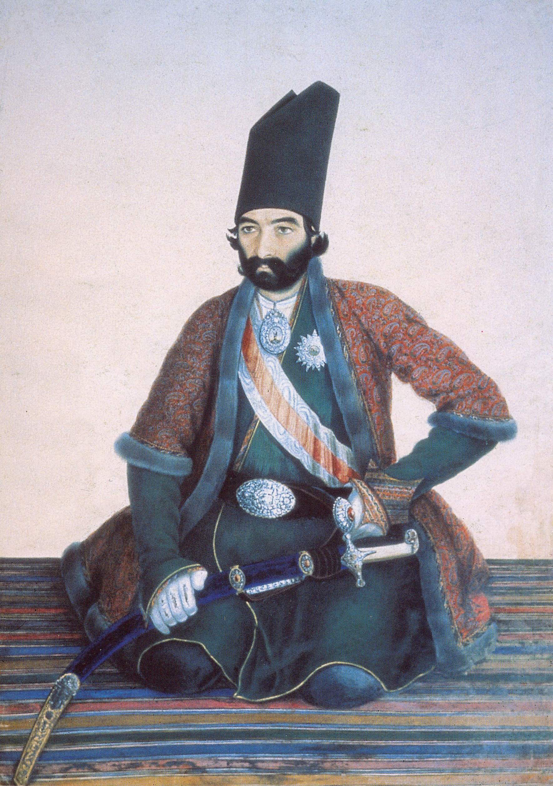 Prince Emāmqoli Mirza Emad od-Dowleh, grandson of Fath-Ali Shāh, Governor of Kermānshāh and Lorestān Watercolor on paper 23*32 cm. ca. 1274 [1858] British Library, London, Inv. no. Or. 4938/Folio 7